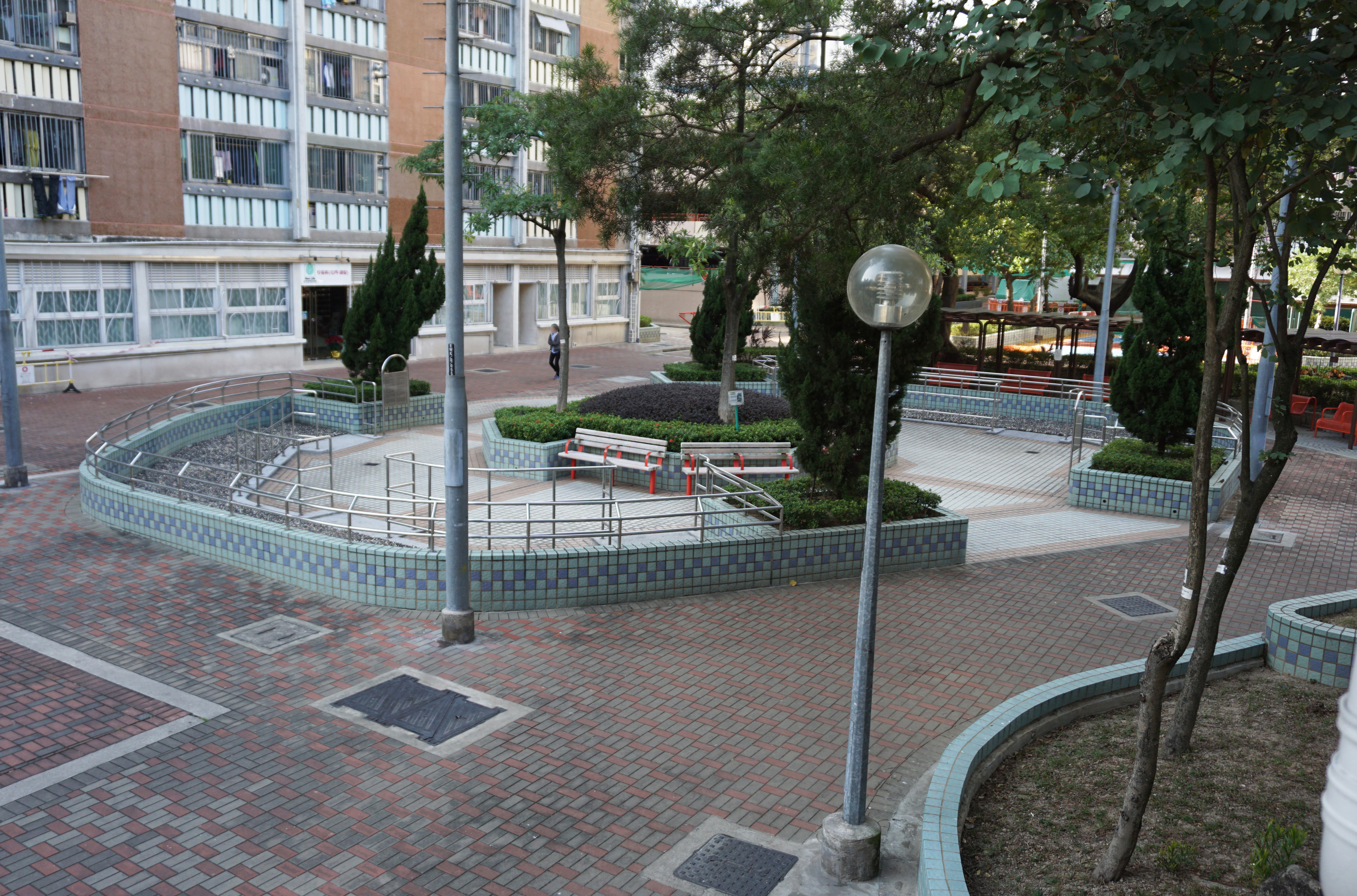 Wu King Estate in Tuen Mun, Hong Kong.